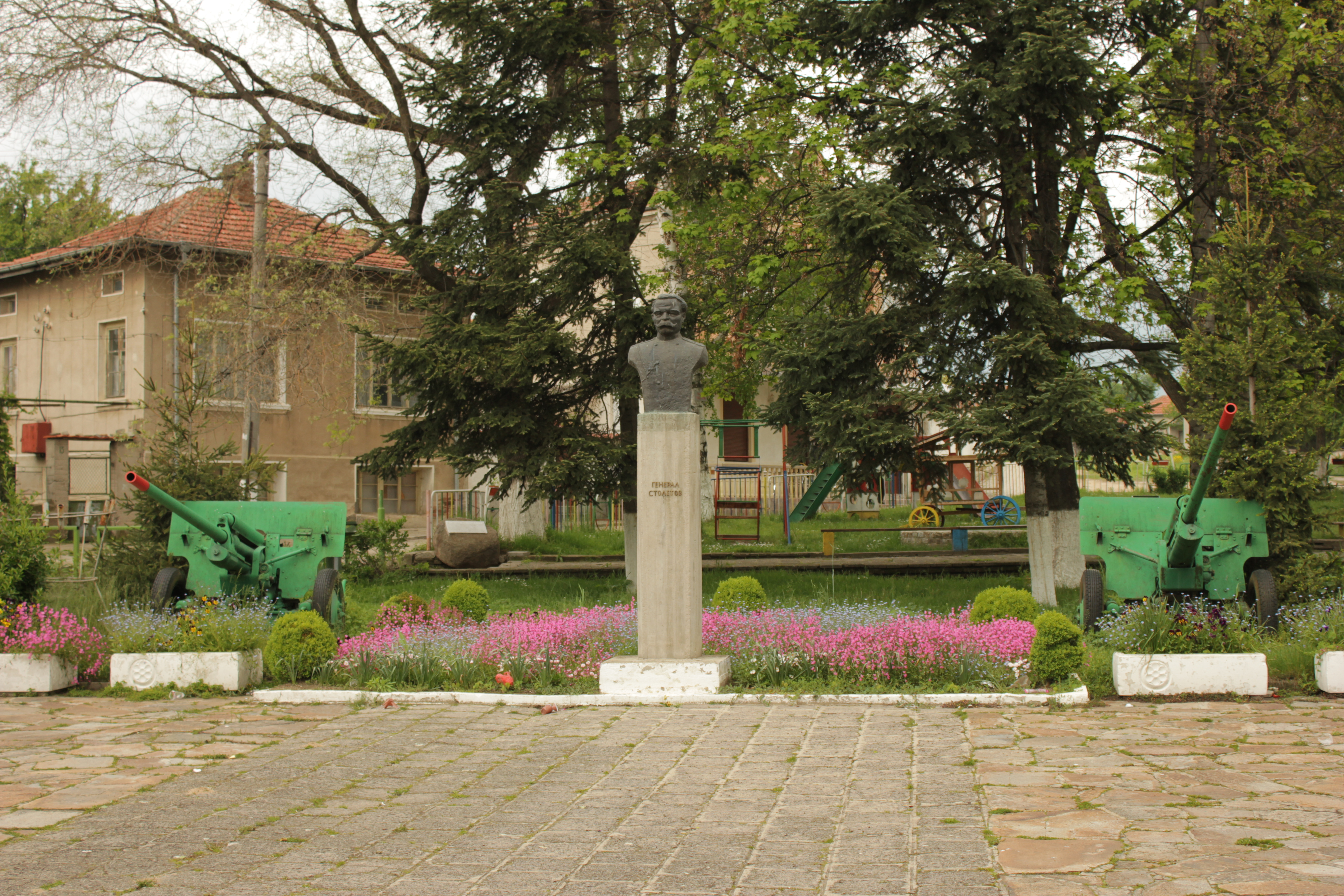 General Nikolai Stoletov Memorial in Stoletovo, Bulgaria